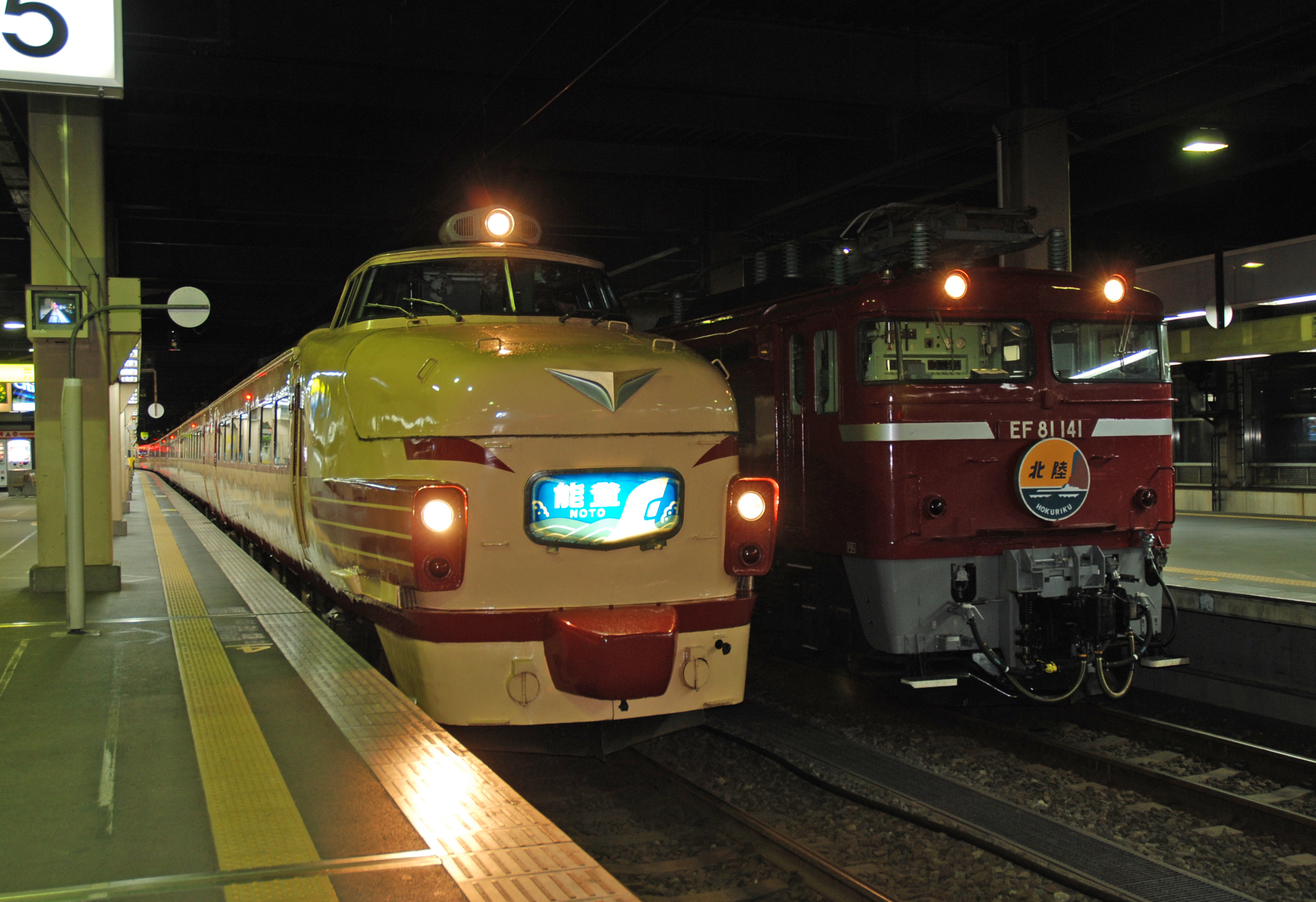 Express train Noto (left) and sleeper limited express train Hokuriku wait for departure, at Kanazawa Station